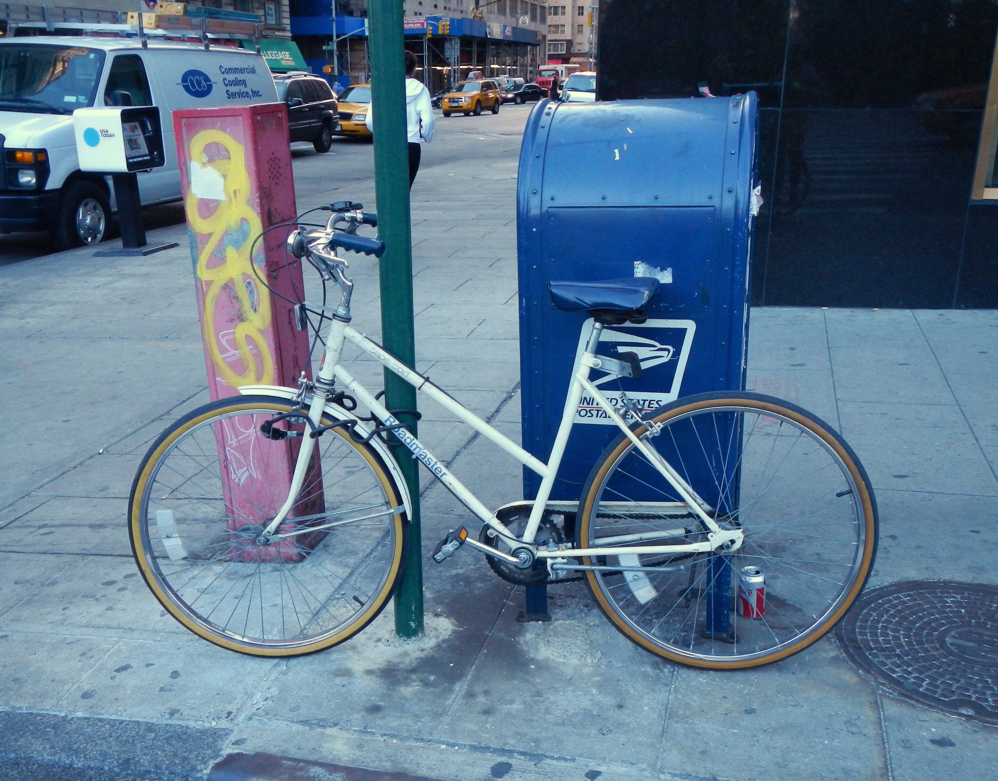 Looking south at Roadmaster bike on Central Park South.